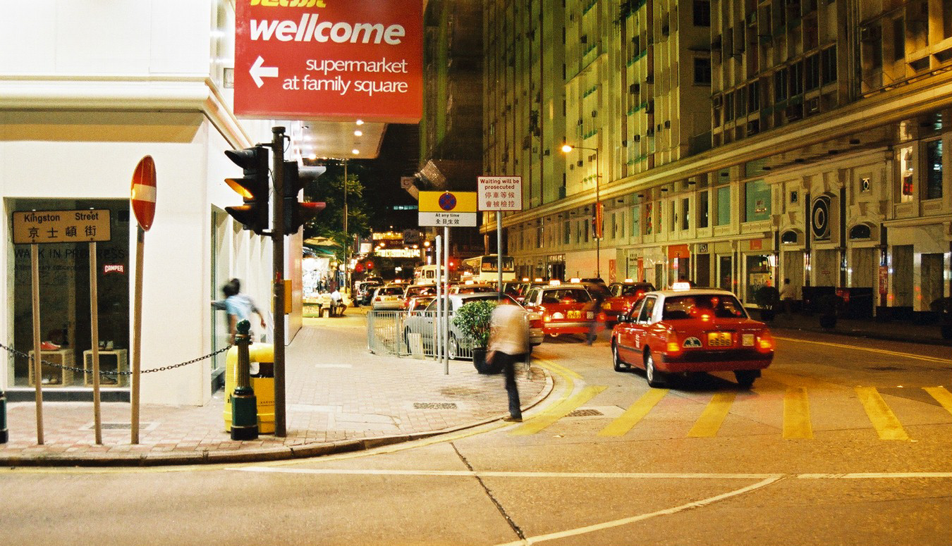 Causeway Bay at Night (Taken by Tsui Sing Yan Eric) Removed from the following pages: Causeway Bay --OrphanBot 05:06, 25 May 2007 (UTC)